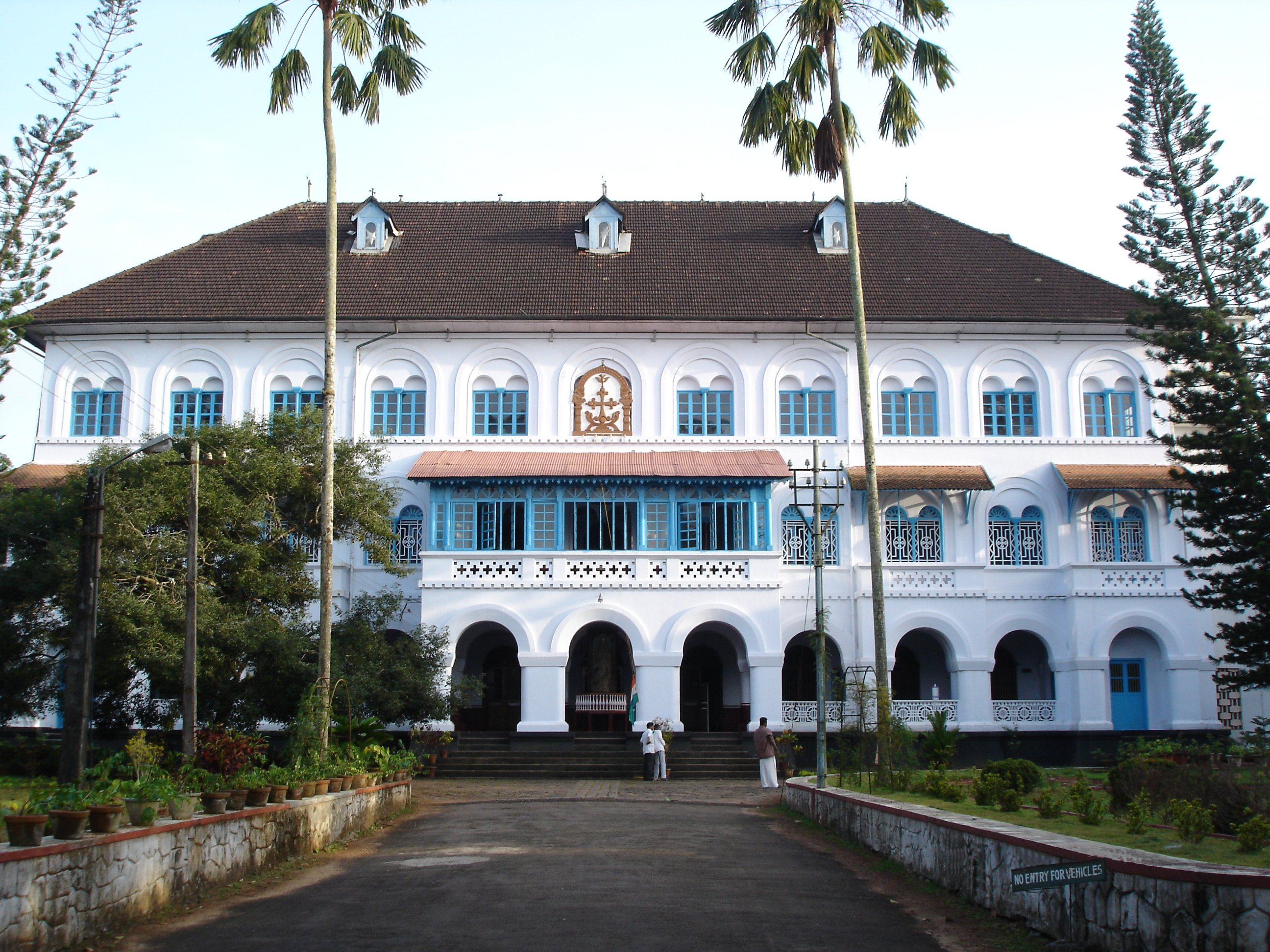 Archbishop's House, Archdiocese of Changanacherry, Syro Malabar Catholic Church, Kerala, India Source: Own work